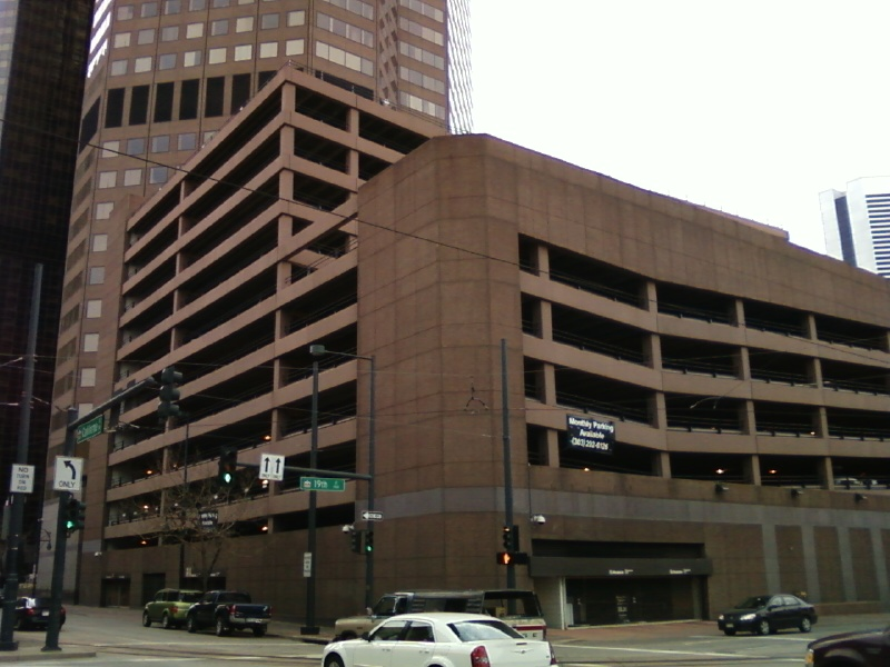 Parking garage at Qwest Tower, 1801 California Street, Denver, Colorado.